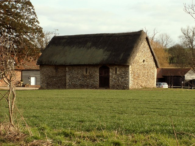 Chapel of St. Helen, Bonhunt Farm, Essex. Standing in the grounds of Bonhunt farm, near Newport, is the small Chapel of St. Helen. It's a complete Norman structure with a thatched roof.